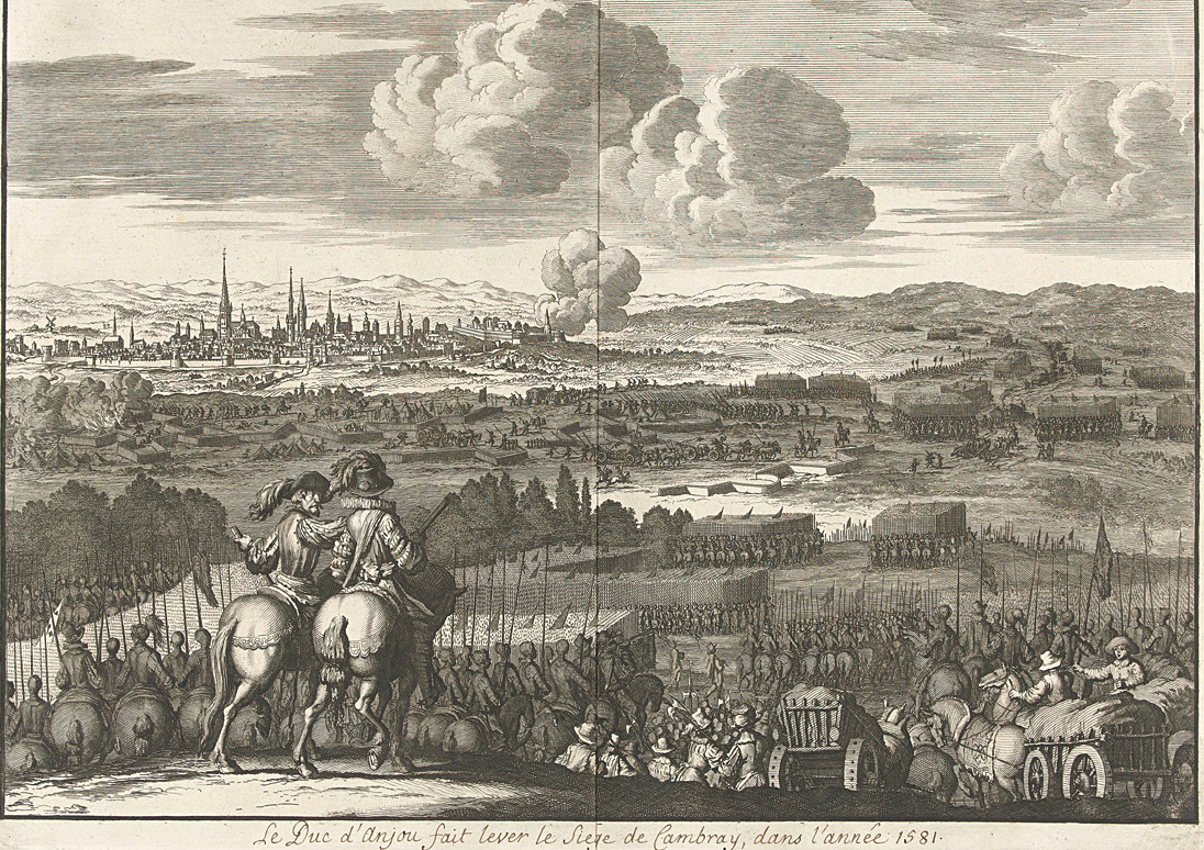 Siege the city of Kamerik 1581